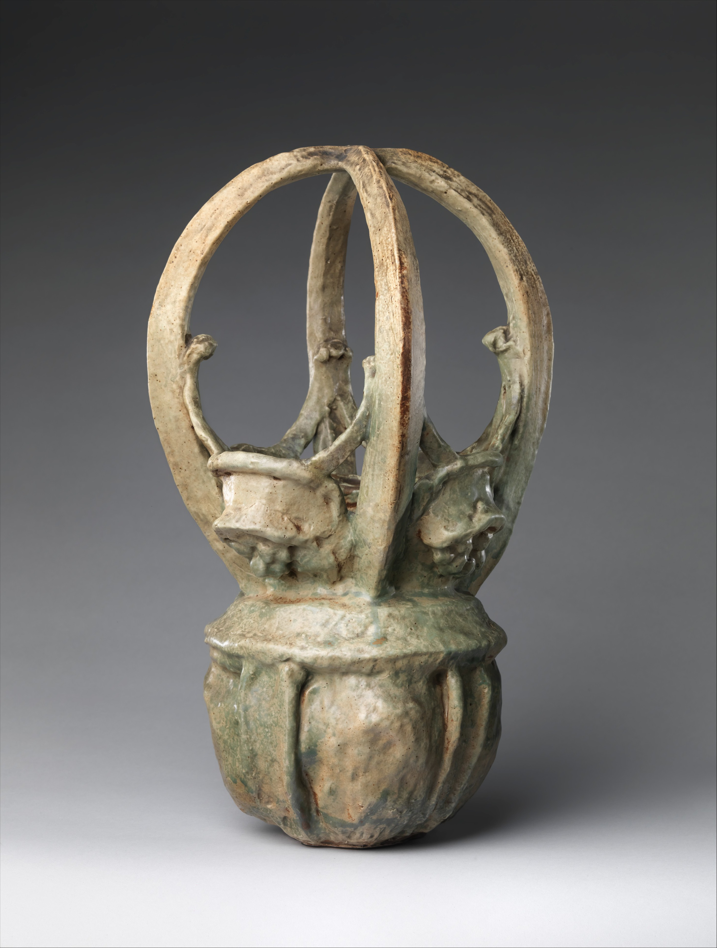 French, Saint-Amand-en-Puisaye; Vase; Ceramics-Pottery